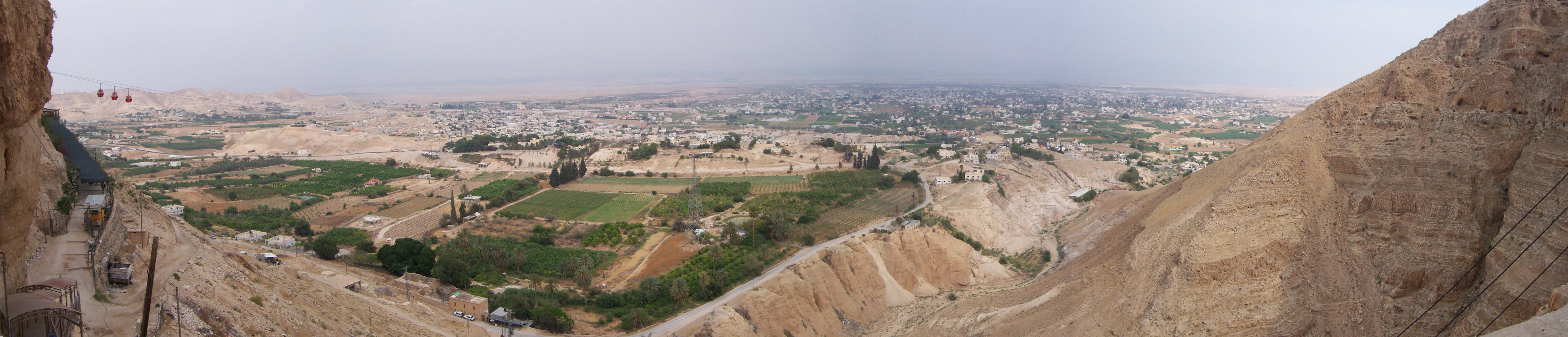 Panorama of Jericho city from Monastery of Temptation